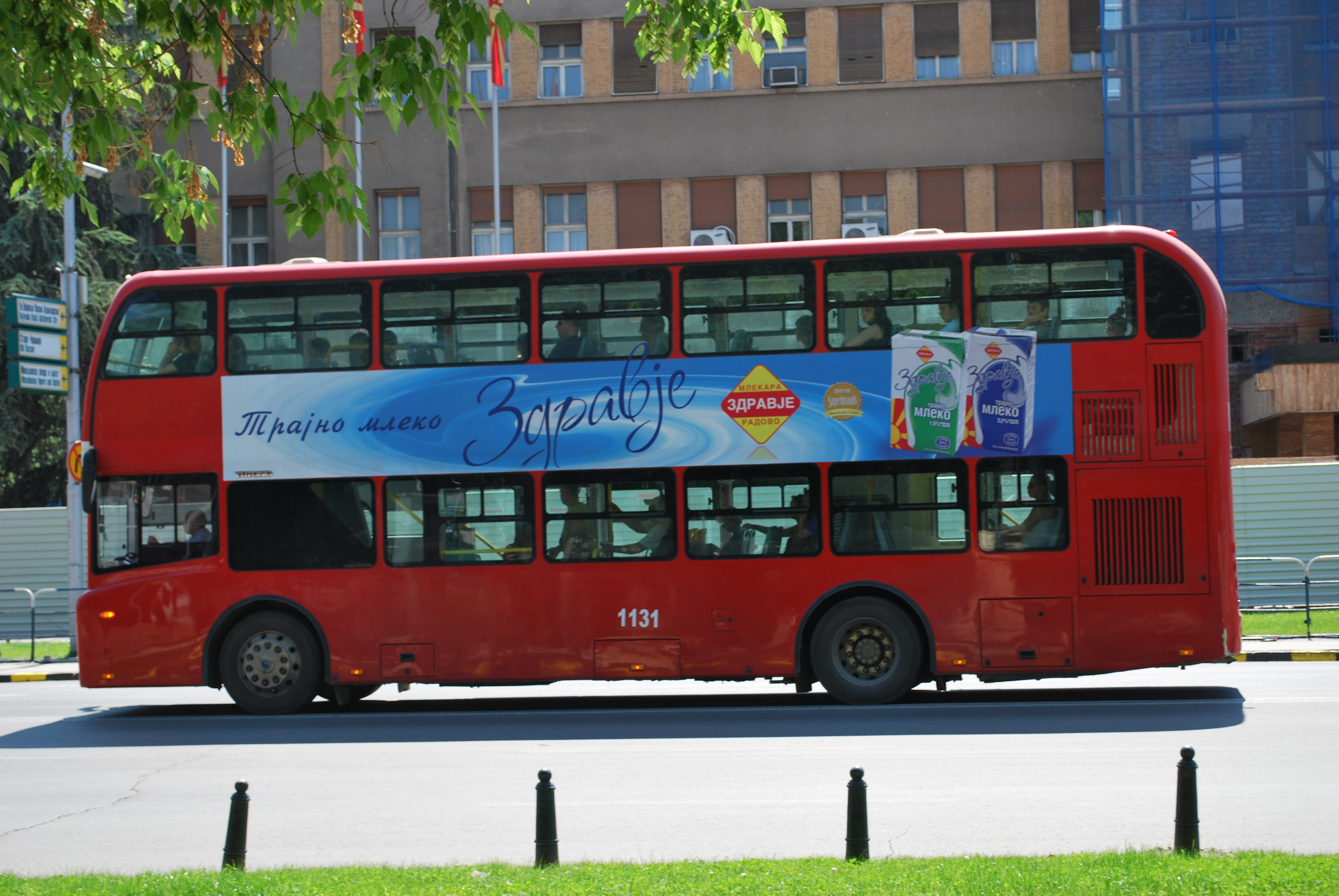 Skopje, Macedonia